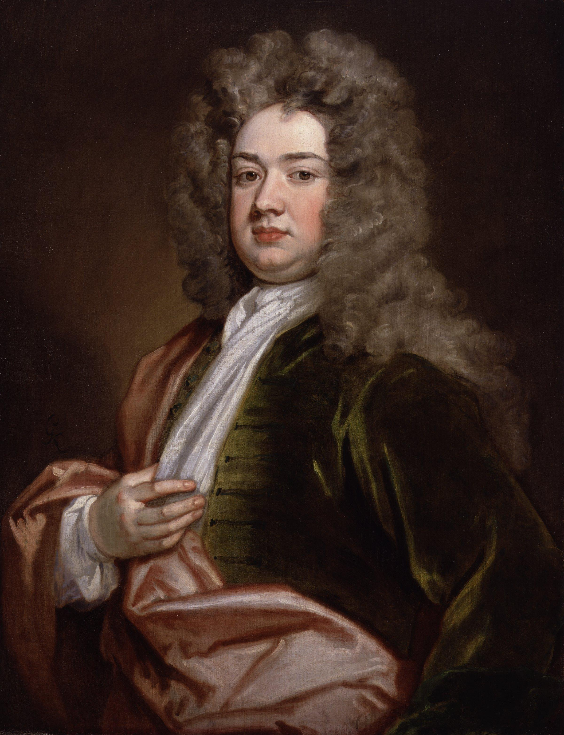 Charles Cornwallis, 4th Baron Cornwallis, by Sir Godfrey Kneller, Bt (died 1723), given to the National Portrait Gallery, London in 1945. All images in this batch have been confirmed as author died before 1939 according to the official death date listed by the NPG.